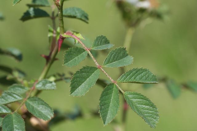 (en) Rosa agrestis, a photography originating of the internet site The accord of the autor, H. Brisse, is here. (fr) Rosa agrestis, une photographie issue du site internet L'accord de l'auteur, H. Brisse, se situe ici.